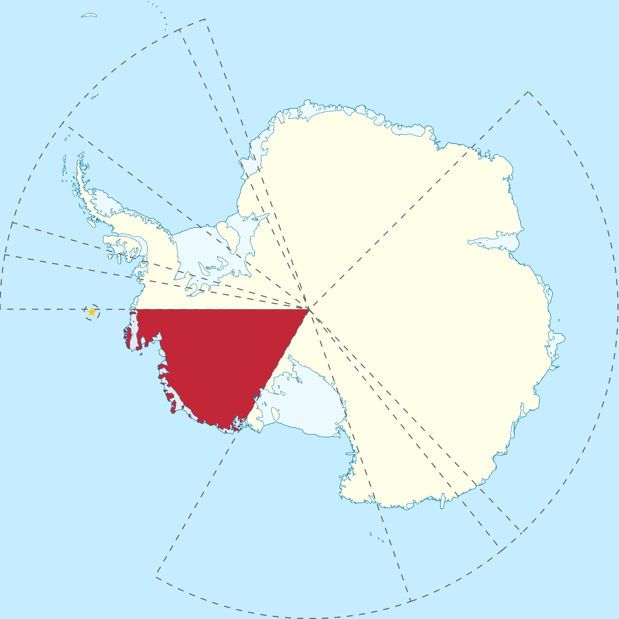 Map of the Micronation of Westarctica